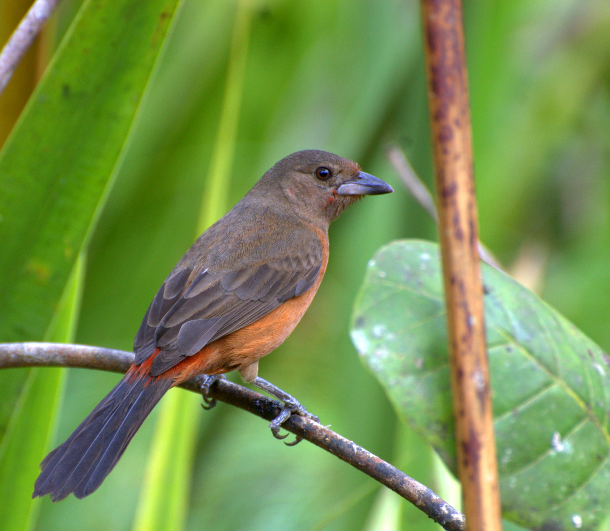 A female Brazilian Tanager (Ramphocelus bresilius)